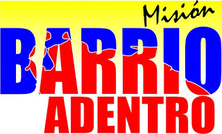 text logo for the Venezuelan health system Misión Barrio Adentro